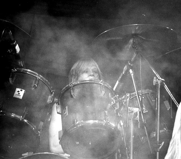 Kinde, the drummer of the Finnish garage/glam rock band Smack on stage at Vanha ylioppilastalo, Helsinki 1987.